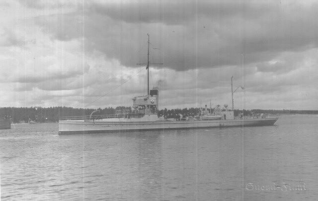 Finnish gunboat Klas Horn, former the Imperial Russian torpedo cruiser Posadnik.